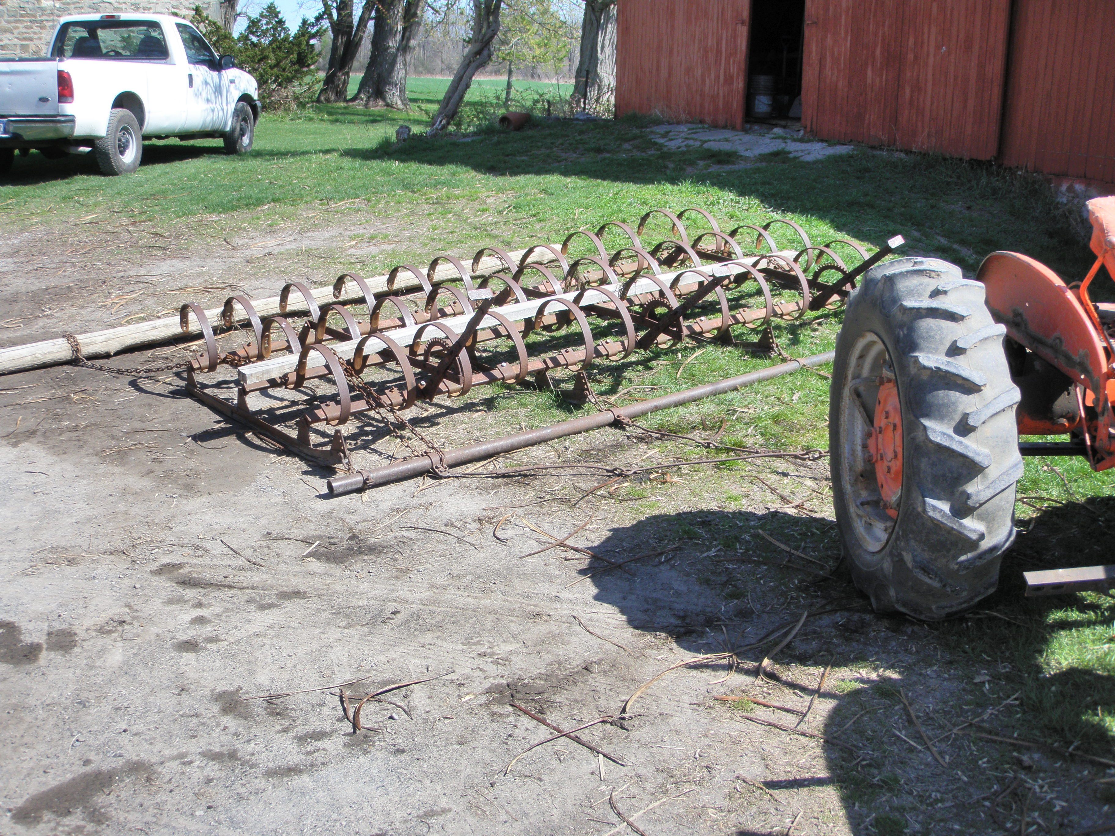 A 12 foot spring tooth drag harrow. Note how it is in four foot sections with manual levers to raise and lower.